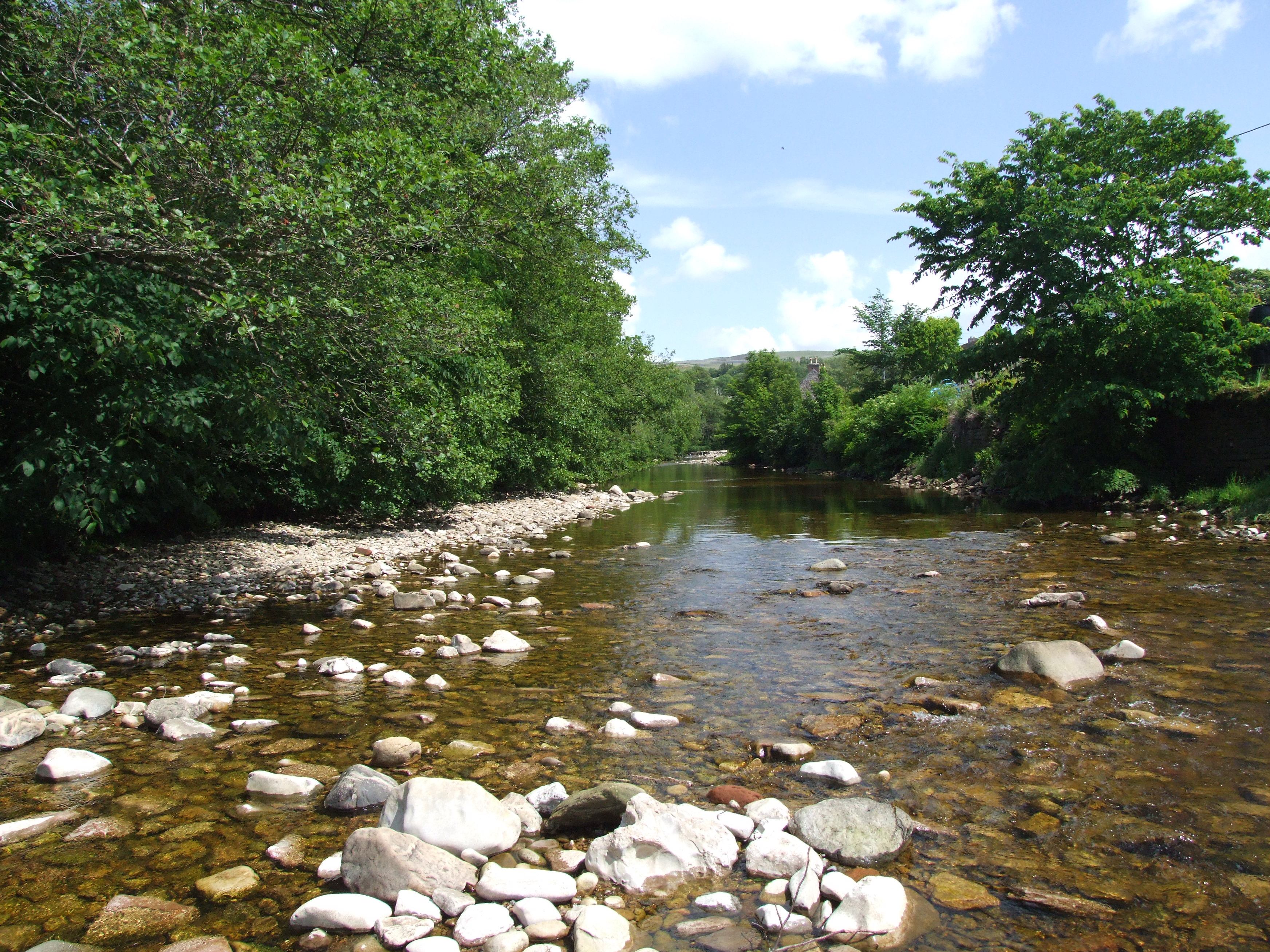 Kirkby Stephen: The River Eden.